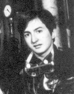 Multiplexer, aviator Dro's specialized worker